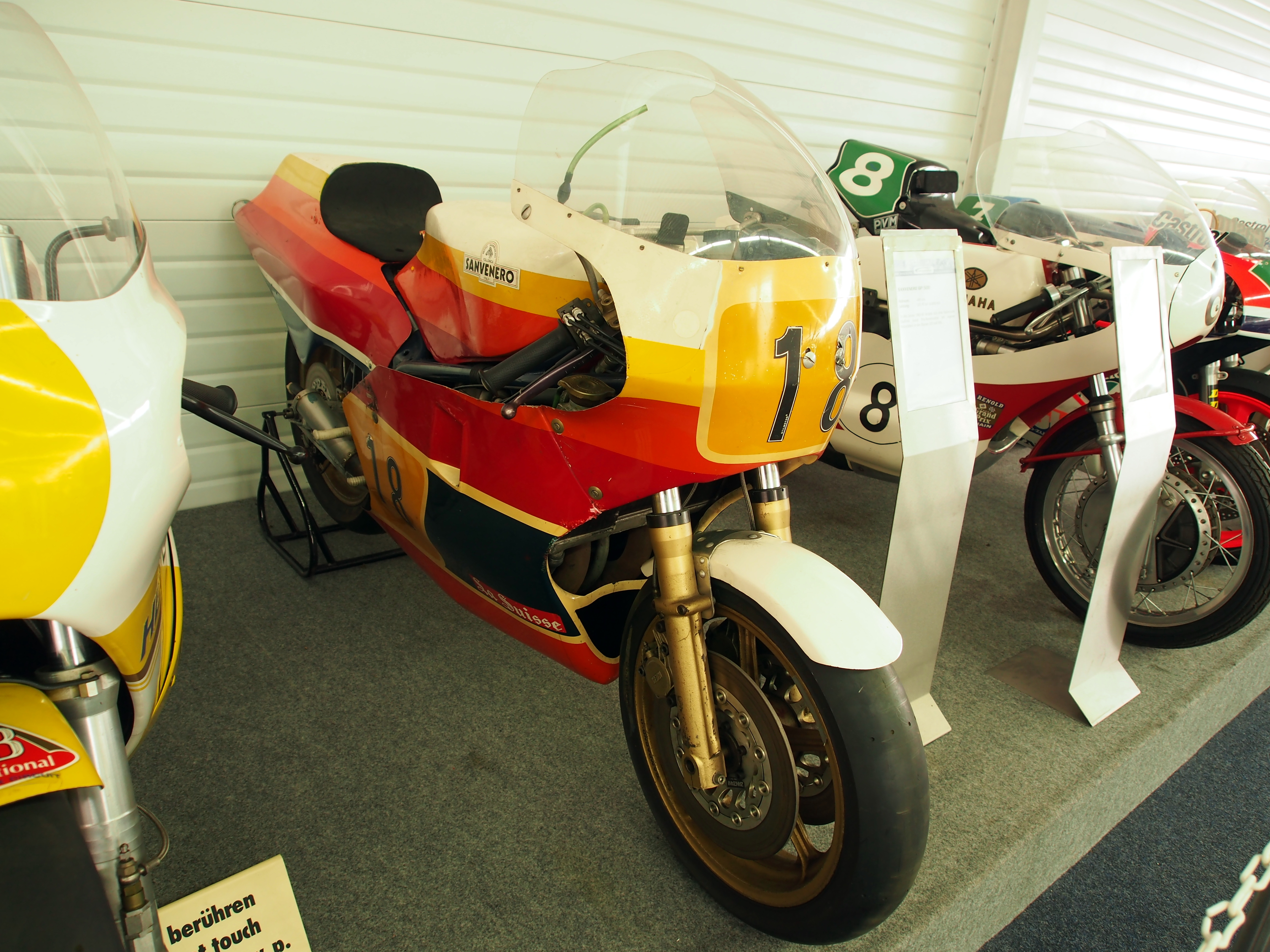 Photographed at the Motor-Sport-Museum am Hockenheimring, Germany.